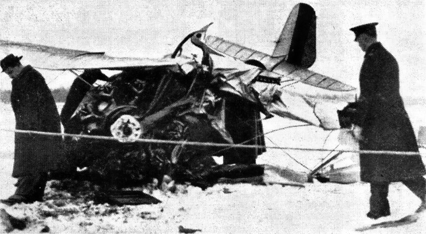 Wreckage of the plane of the Swedish Captain Einar Lundborg after the accident on January 27, 1931.